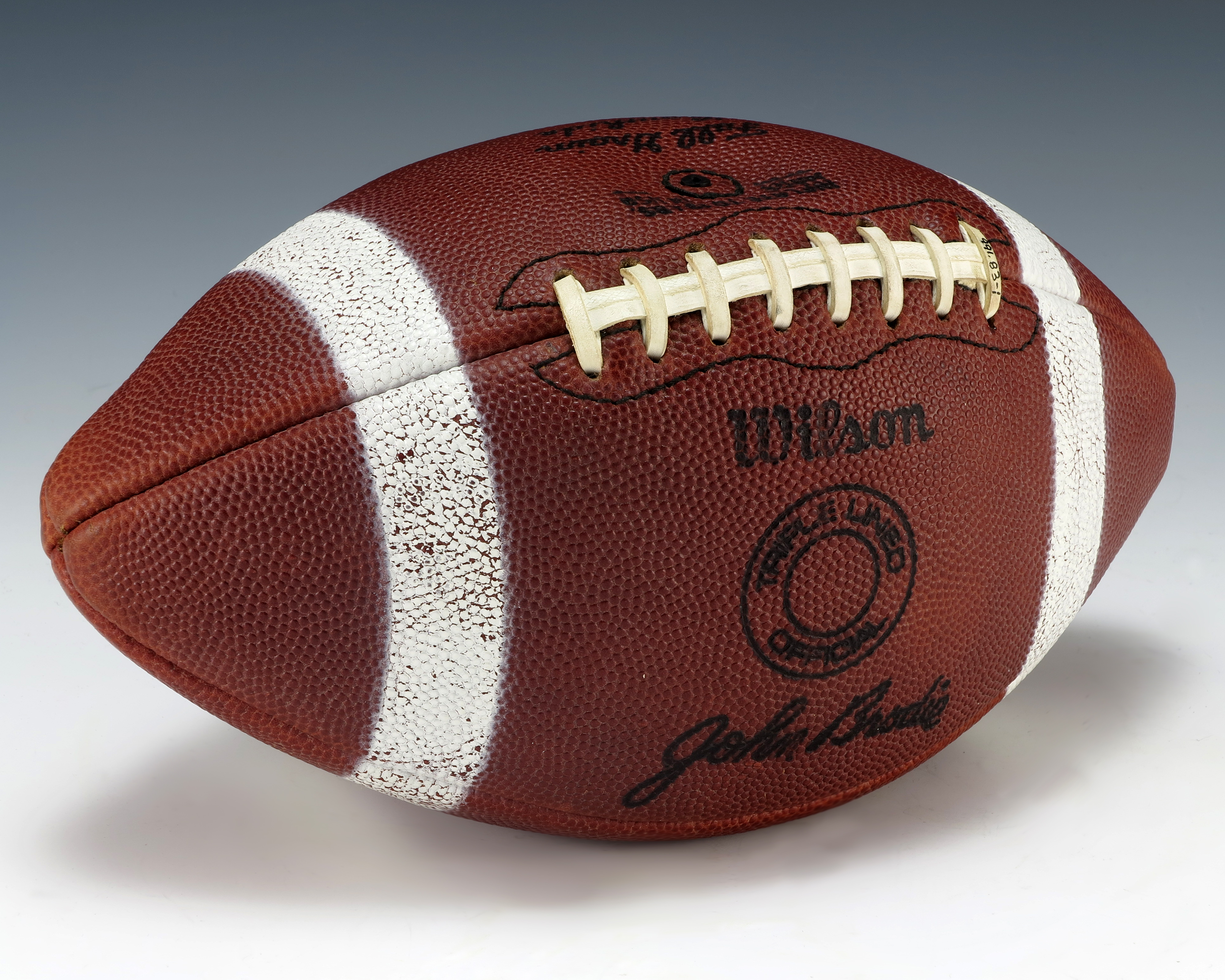 An official football that features the signature of John Brodie.